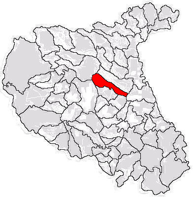 Limits of the Commune of Boloteşti